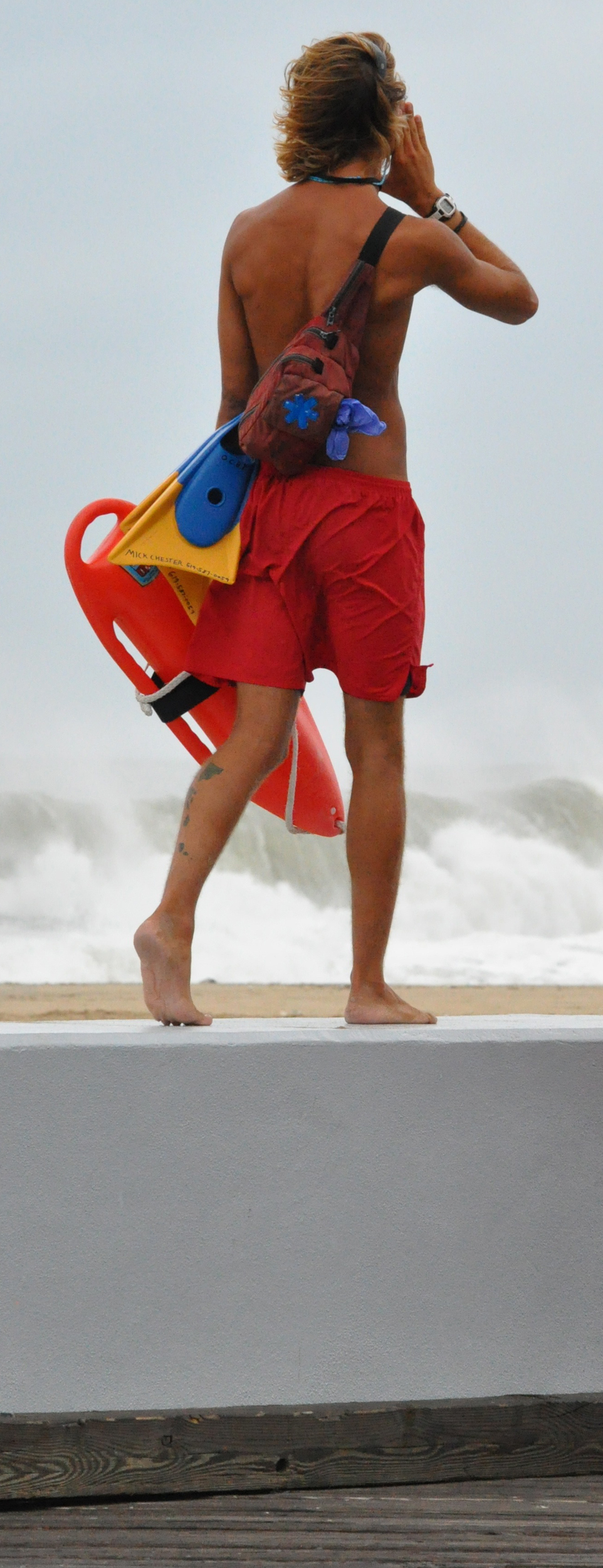 Mick Chester An Ocean City Maryland Surf Rescue Technician Guards The Waters of Ocean City As Hurricane Earl Slides Past The Coast Bringing Strong Rip Currents And Big Surf.